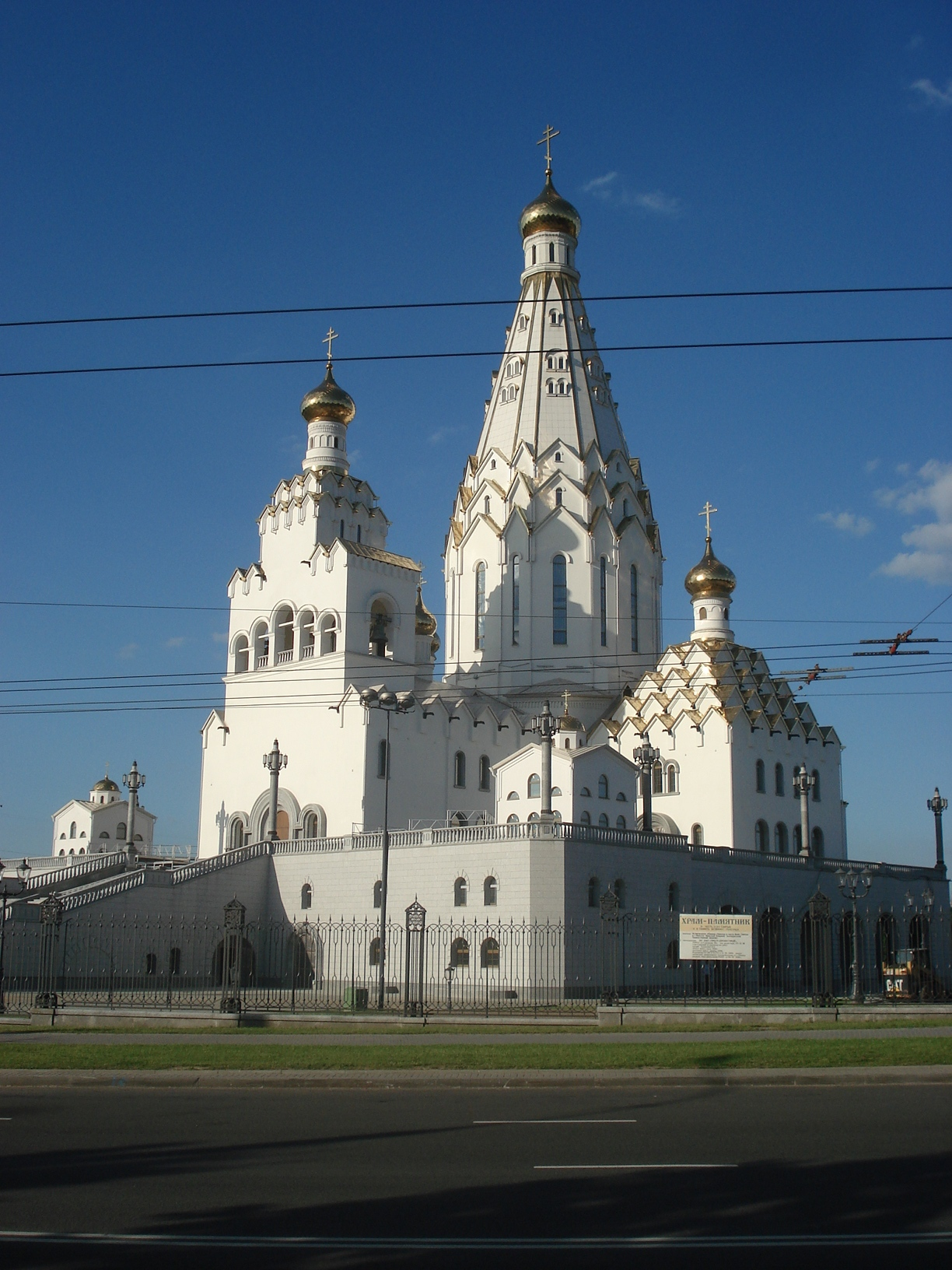 The Moscow Patriarchate Kathedral in Miensk, Belarus